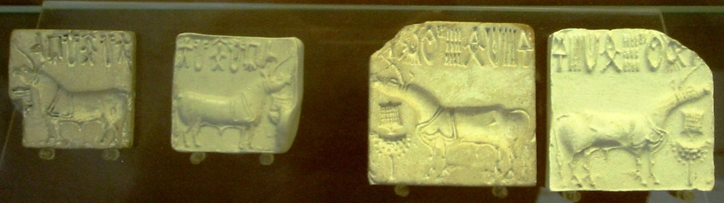 Indus valley seals showing unicorns. derived from wikimedia commons original image: British Museum. Personal photograph, uploaded by User:World Imaging, 2005.